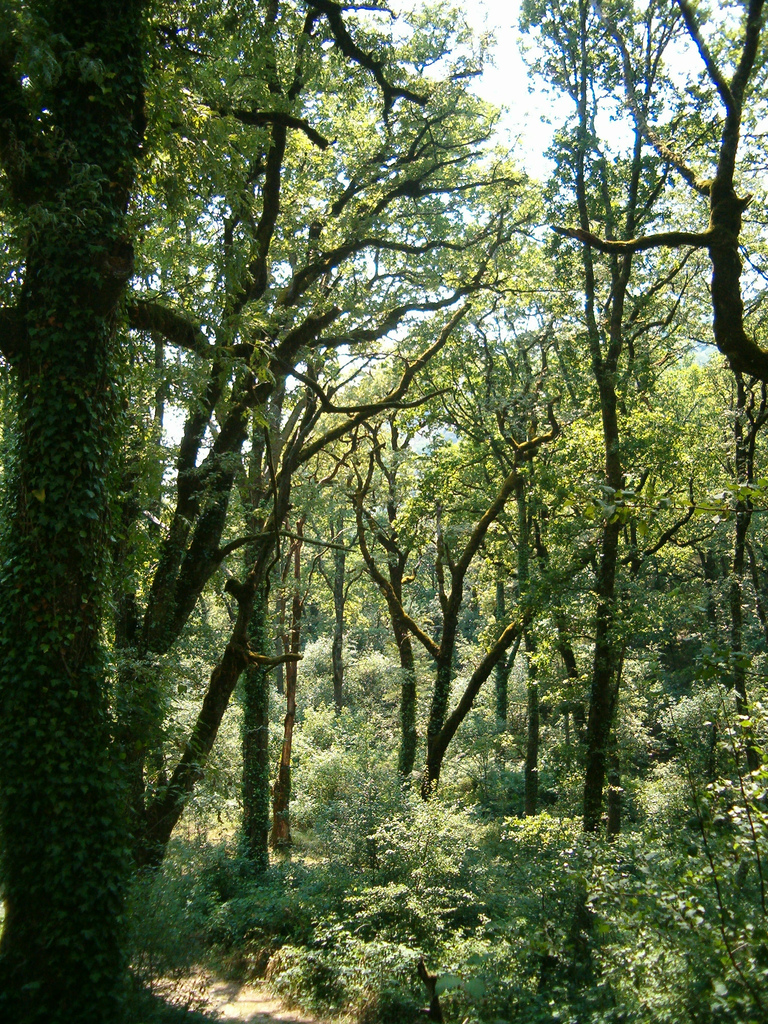 Vegetation in Peneda-Gerês National Park (Portugal)